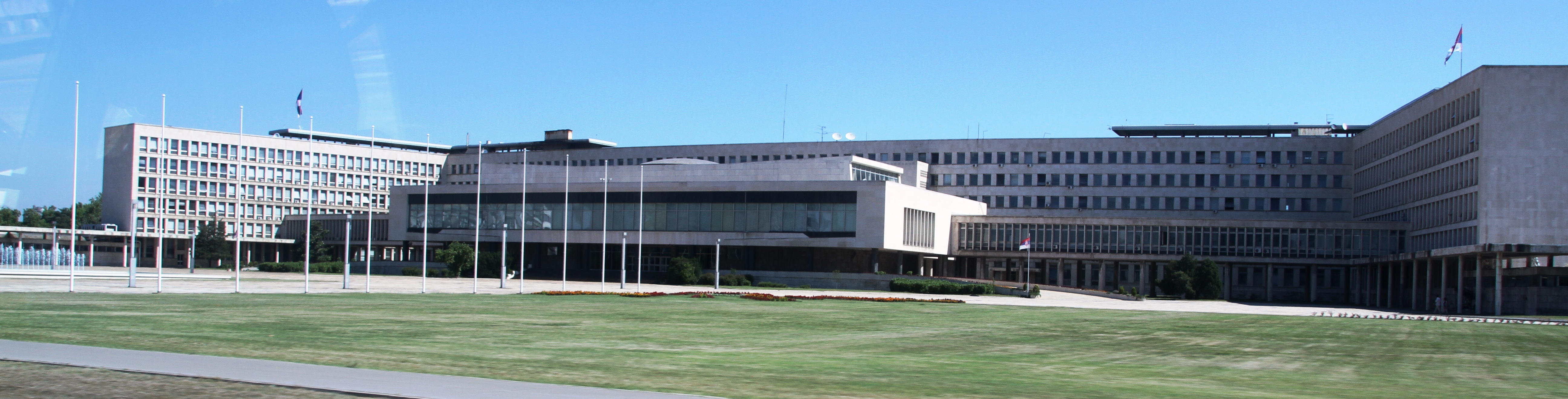 Palace of Serbia, the former Yugoslavia government headquarters, in Novi Beograd, western Belgrade, Serbia.